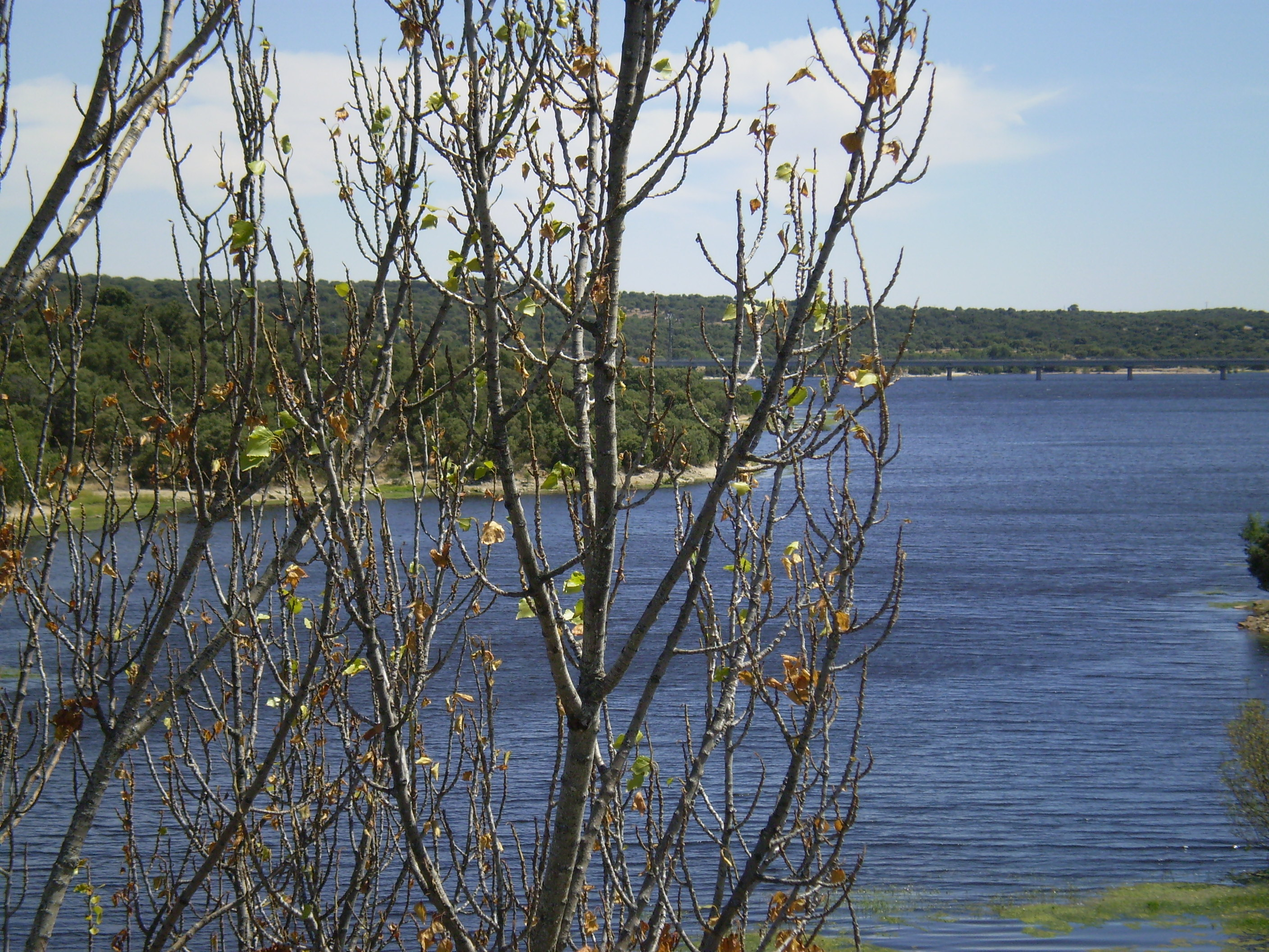 Aulencia River in Valmayor reservoir. Community of Madrid, Spain